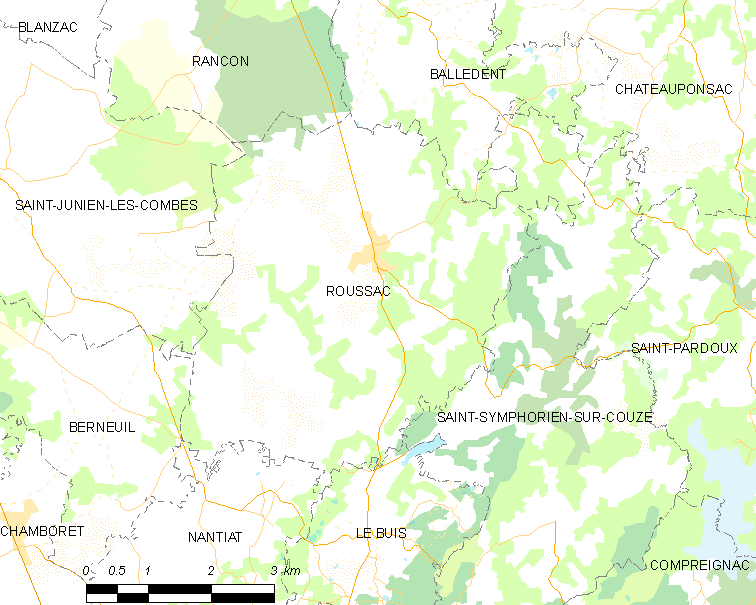 Map of French municipality Roussac